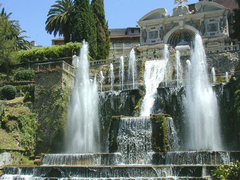 Tivoli, Villa d'Este: the fountain of Neptune